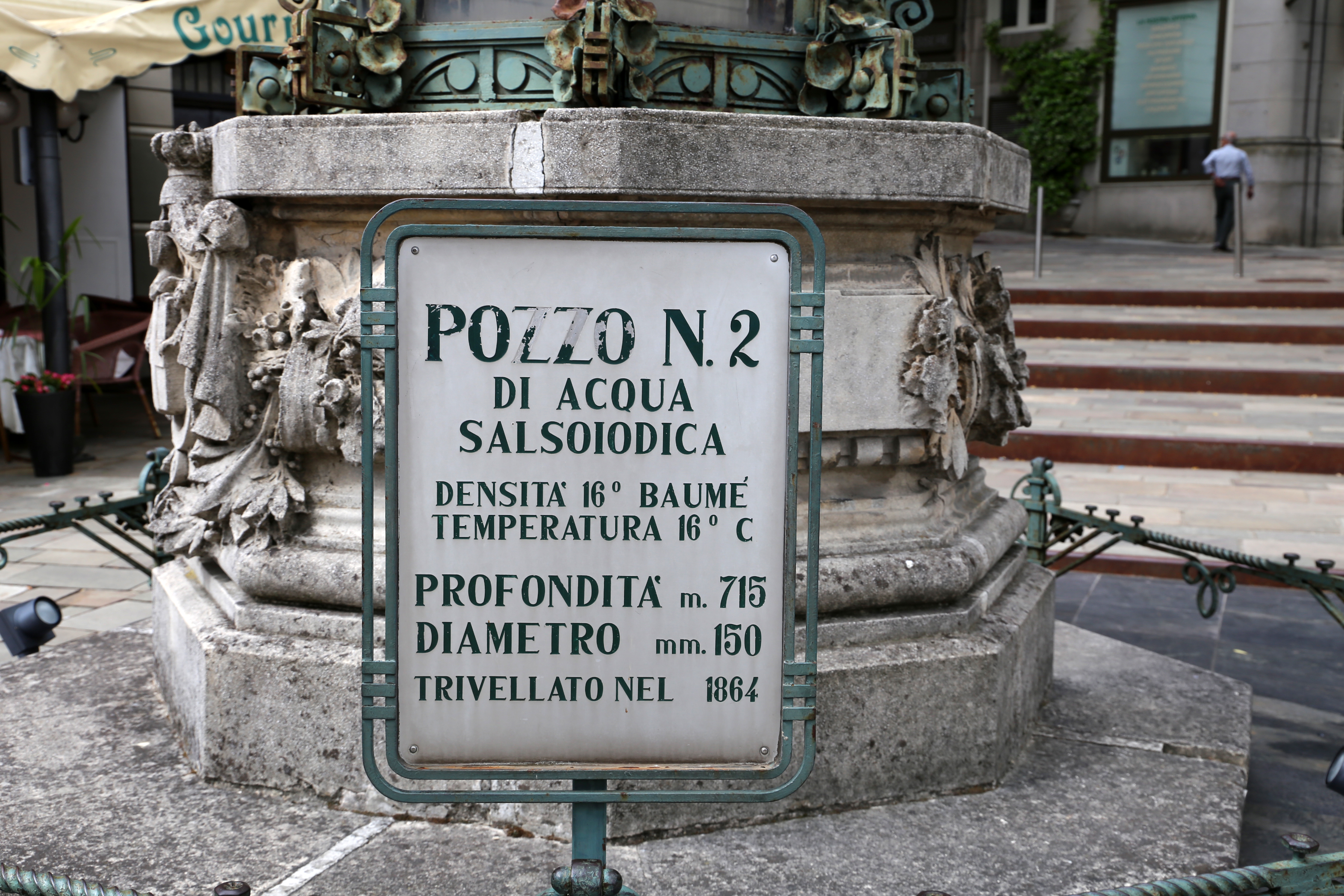 Buildings in Salsomaggiore Terme